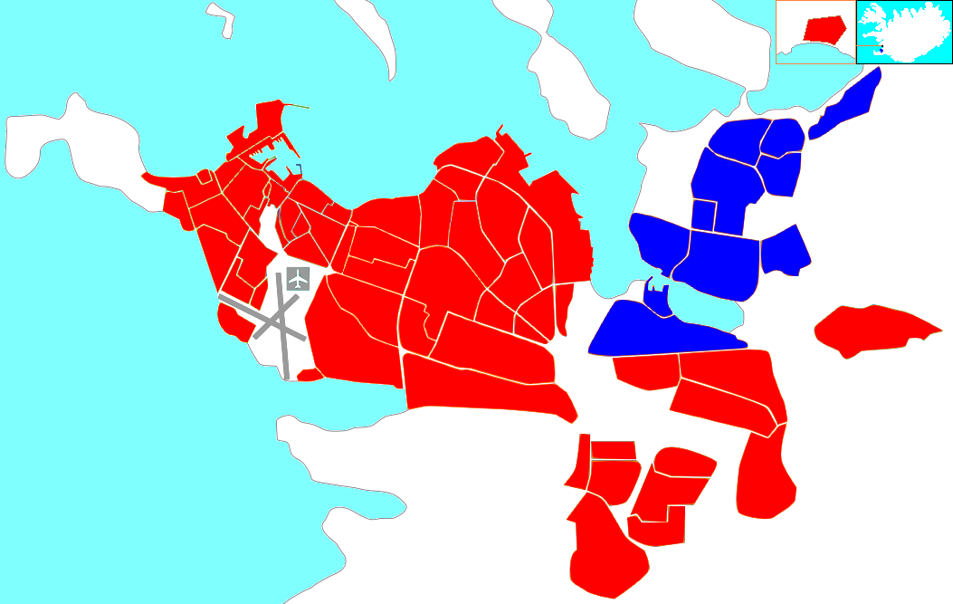 Locator map of the district Grafarvogur (blue) within the municipality of Reykjavik (red).